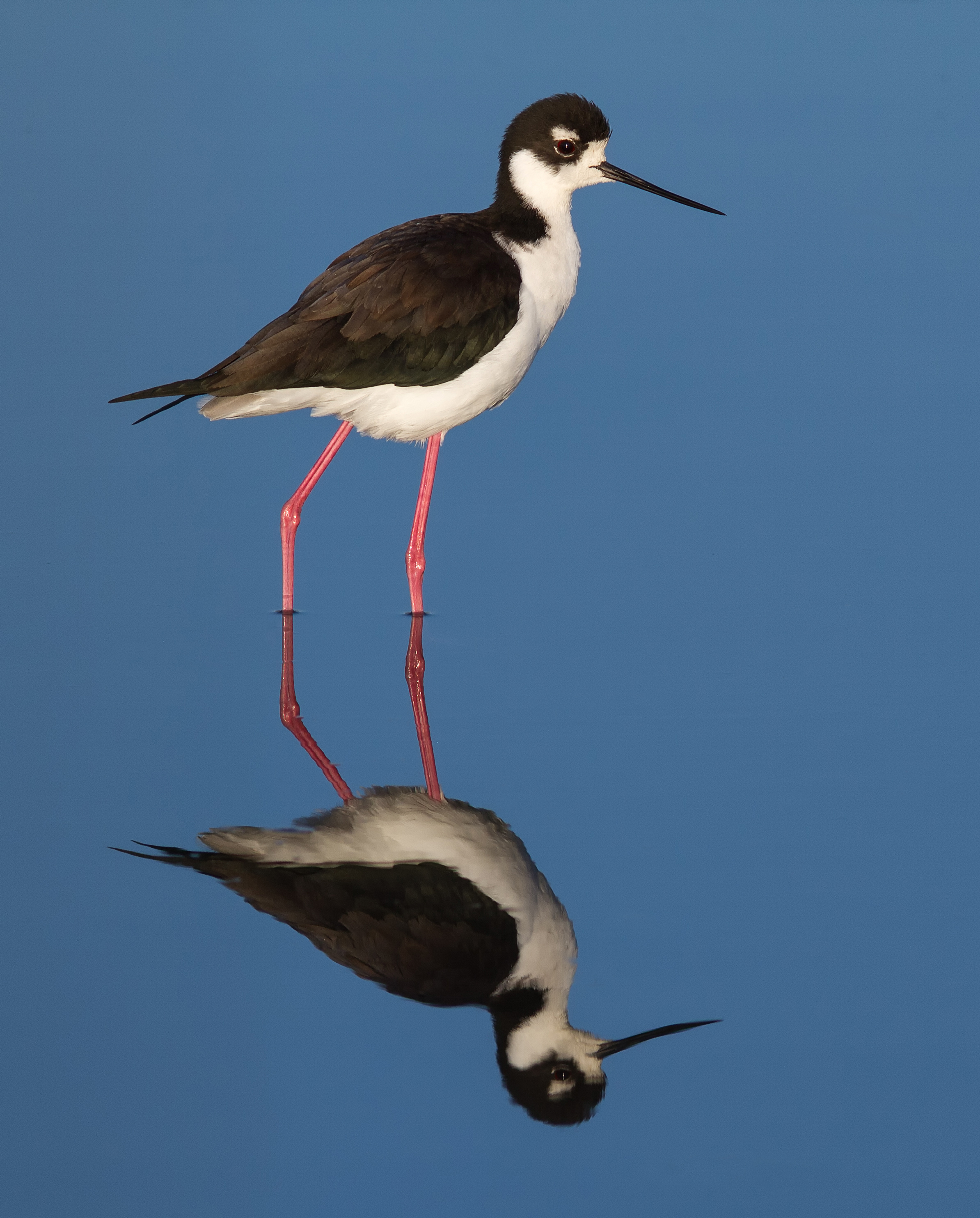 Black-necked Stilt (Himantopus mexicanus) near Corte Madera, Marin County, California.